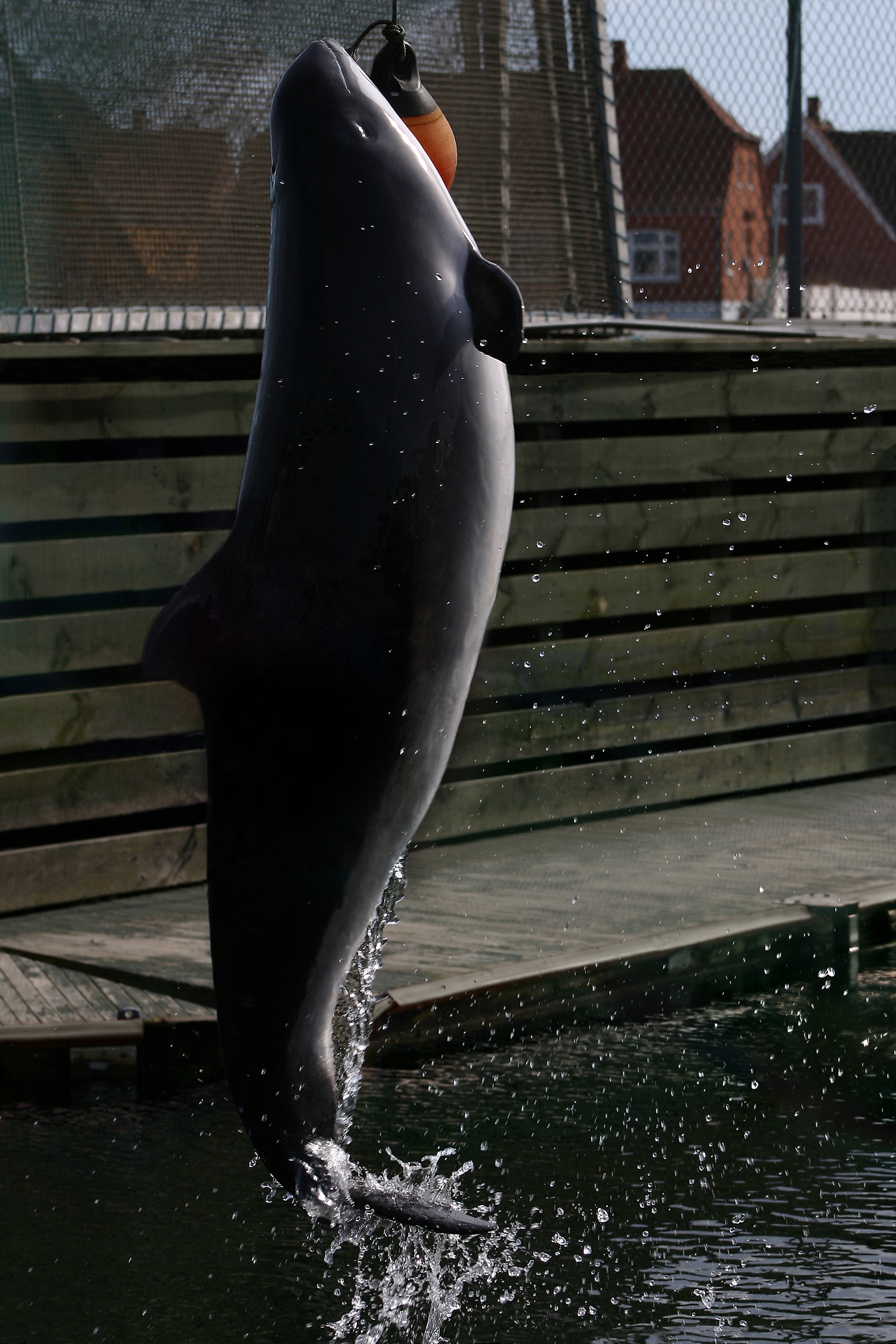 Harbour porpoise (Phocoena phocoena) at Fjord- og Bæltcentret in Kerteminde, Denmark. The harbour porpoises kept at this facility participates in research to find a way to avoid that these small cetaceans are being killed by mistake in fishing nets. At the center are at the moment three harbour porpoises + one baby on its way (probably around august 2007). The jump out of the water as Eigil shows in this photo is not normal behaviour for this species, but is a trick this individual has been taught